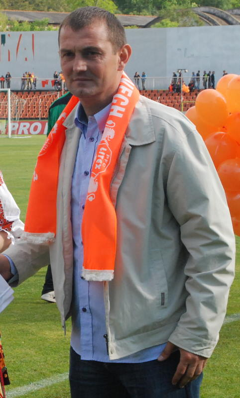 Zlatomir Zagorčić